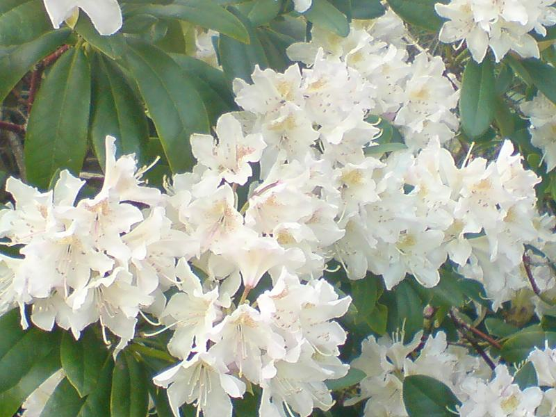 Rhododendron 'Cunningham's White' flowers, closeup; at Kew Gardens, London, England.